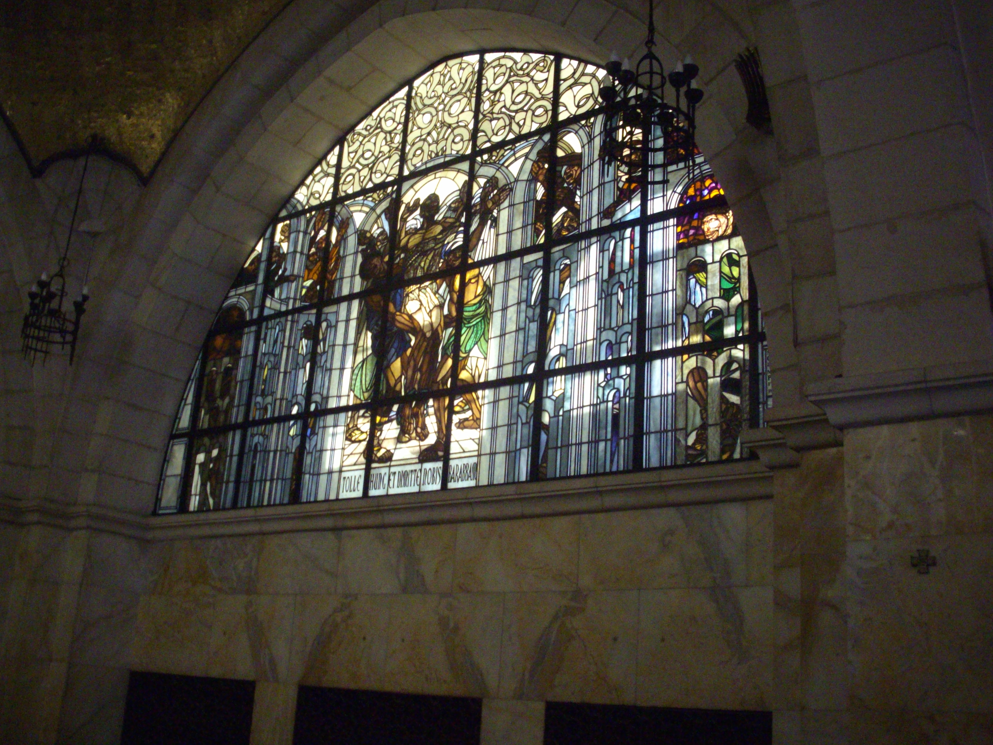 Stained glass window by Duilio Cambellotti (1876-1960) in the church of the Flagallation of Christ, Via Dolorosa, Jerusalem Inscription: Tolle hunc et dimitte nobis Barabbam Lk 23,18 (Away with this man, and release unto us Barabbas)